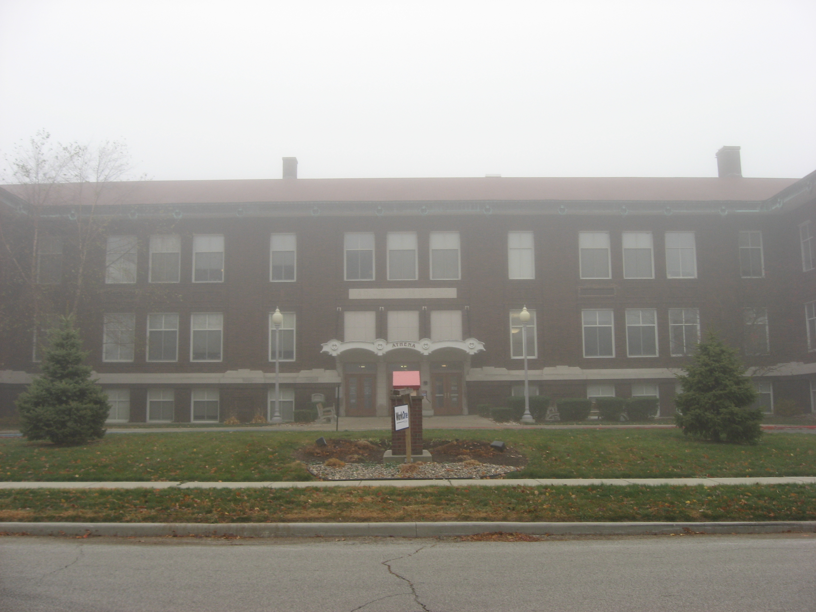 Front of the former Crawfordsville High School, located at 201 E. Jefferson Street in Crawfordsville, Indiana, United States. Built in 1911 and since converted into senior-living apartments, it is listed on the National Register of Historic Places.